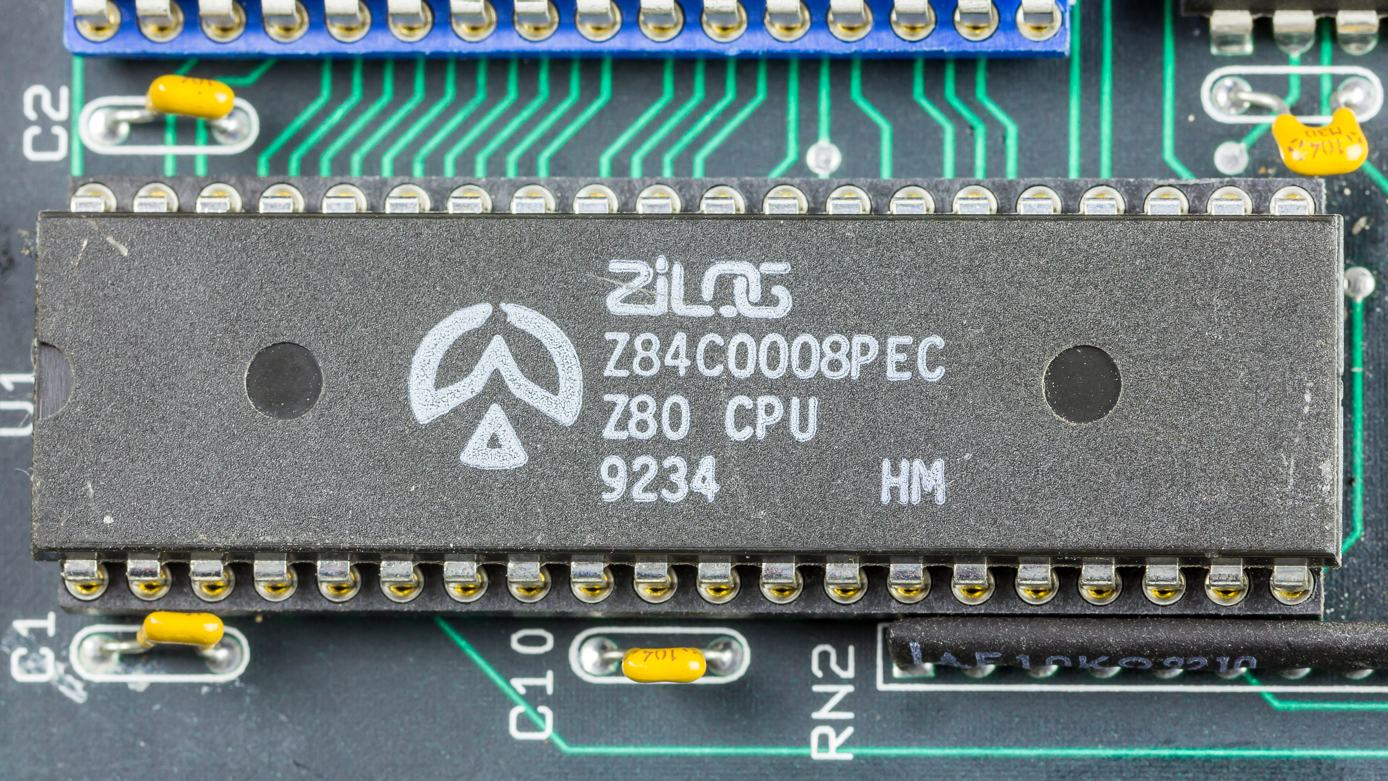 Basic Measuring Instruments - Math Processor 83002190 - Zilog Z80 in a socket - CMOS serie Z84C0008